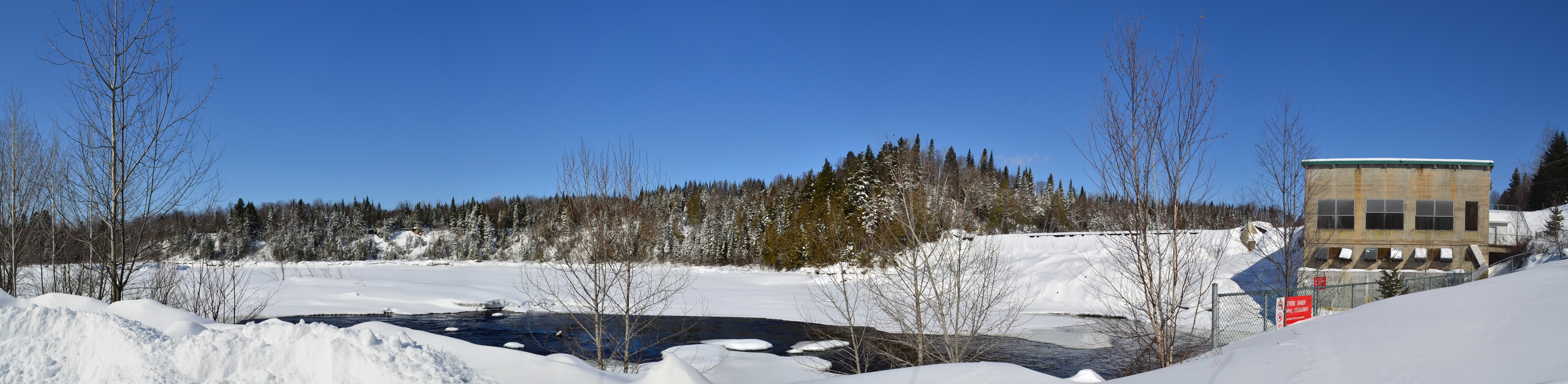 The Chute-Ford dam over the Sainte-Anne river, near Sainte-Christine-d'Auvergne, in the province of Quebec (Canada).